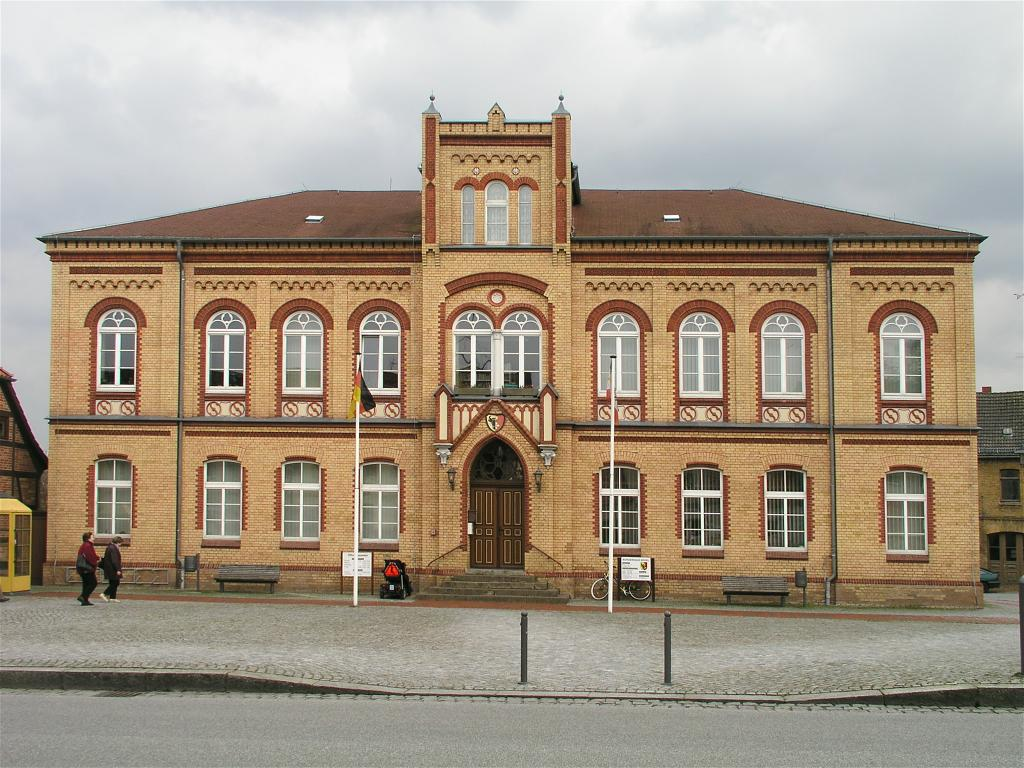 Brüel, Mecklenburg, Germany: townhall, photo 2007